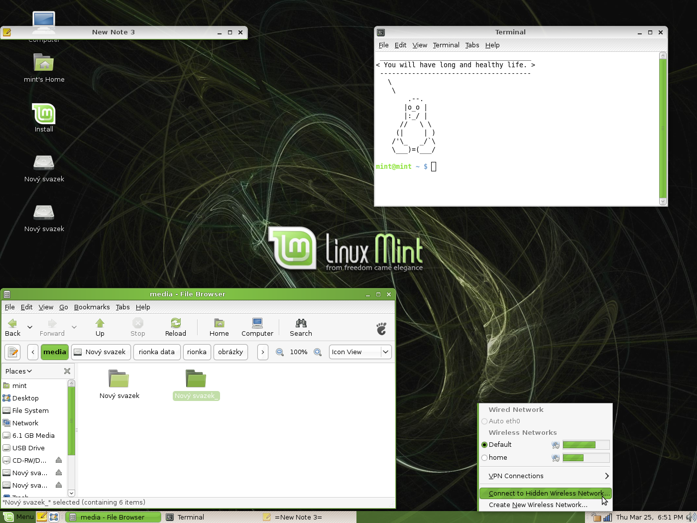 Linux Mint Felicia 6 with GNOME. Nautilus filemanager & terminal.